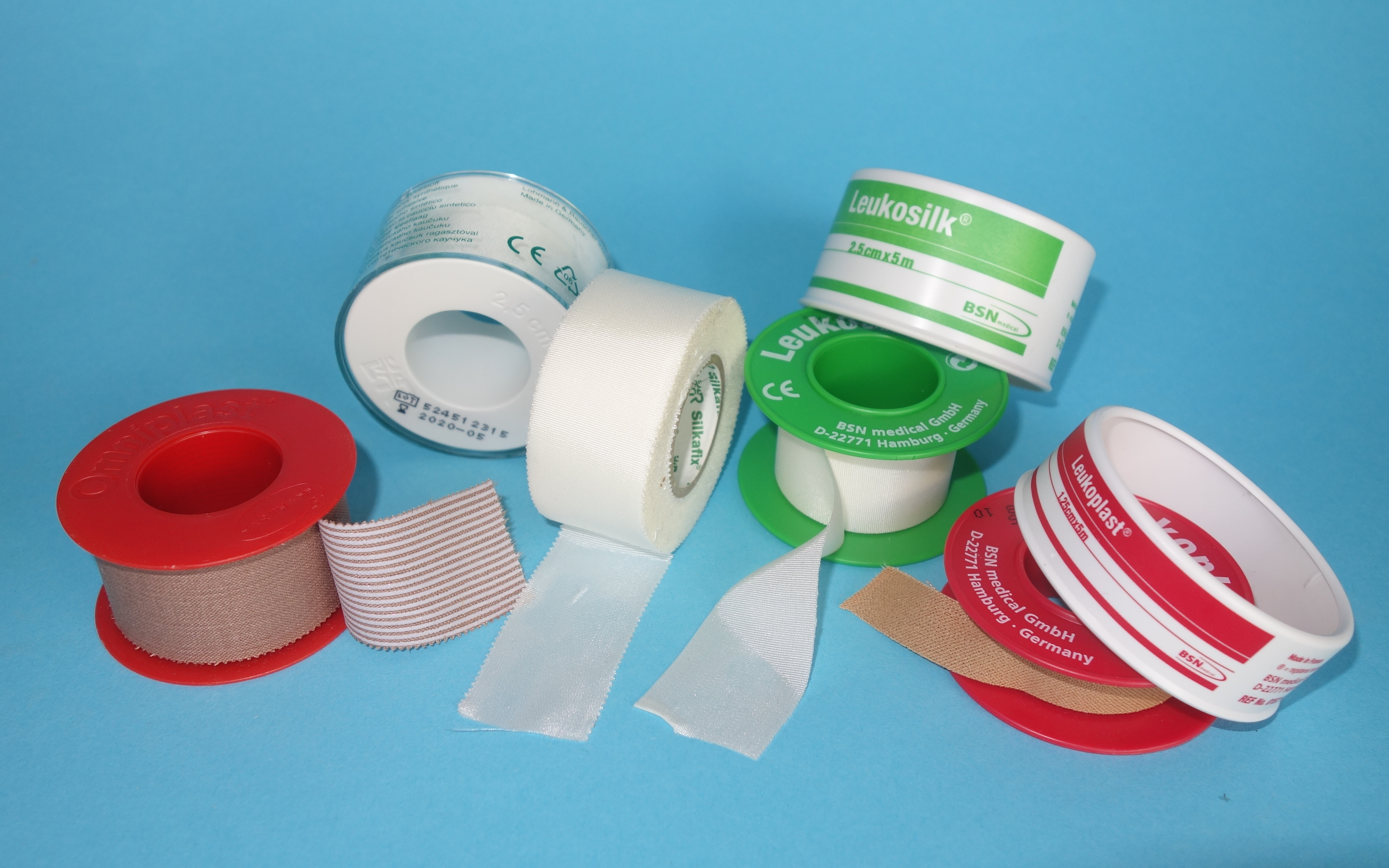 Sticking plaster for medical use, e. g. to fixate wound dressings